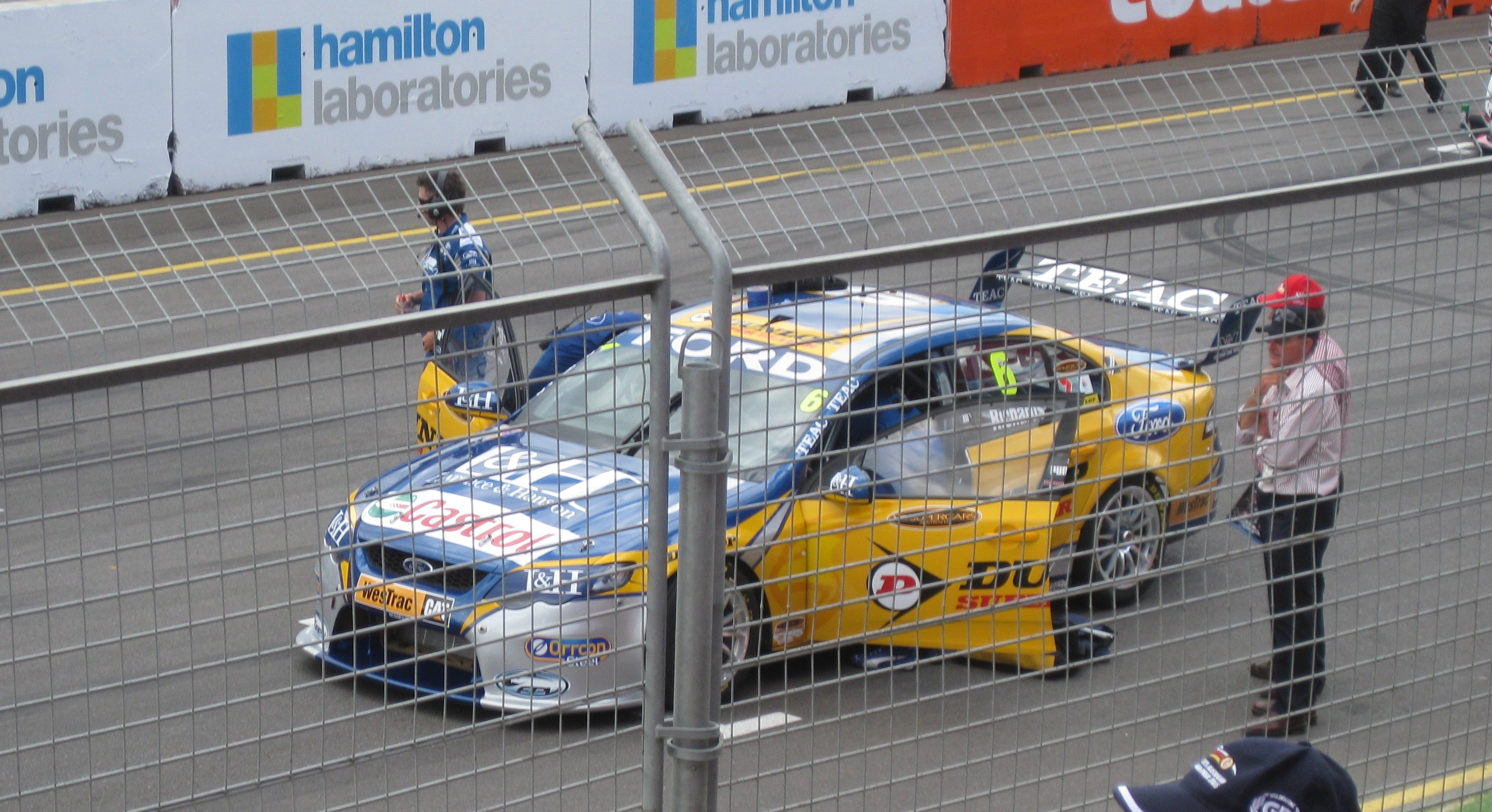 The Ford Performance Racing entered Ford FG Falcon of Steven Richards on the grid for the Saturday leg of the 2010 Clipsal 500 Adelaide.